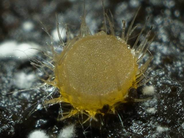 An ascocarp of the fungus Lasiobolus papillatus (Pers.) Sacc.; photographed in Los Trancos Preserve, Palo Alto, California, USA. "Notes: On dung pellets; deer, I suppose; the pellets measure 15×8 mm. Hair in the picture 0.65 mm long. Spores 19-20 × 10-11."